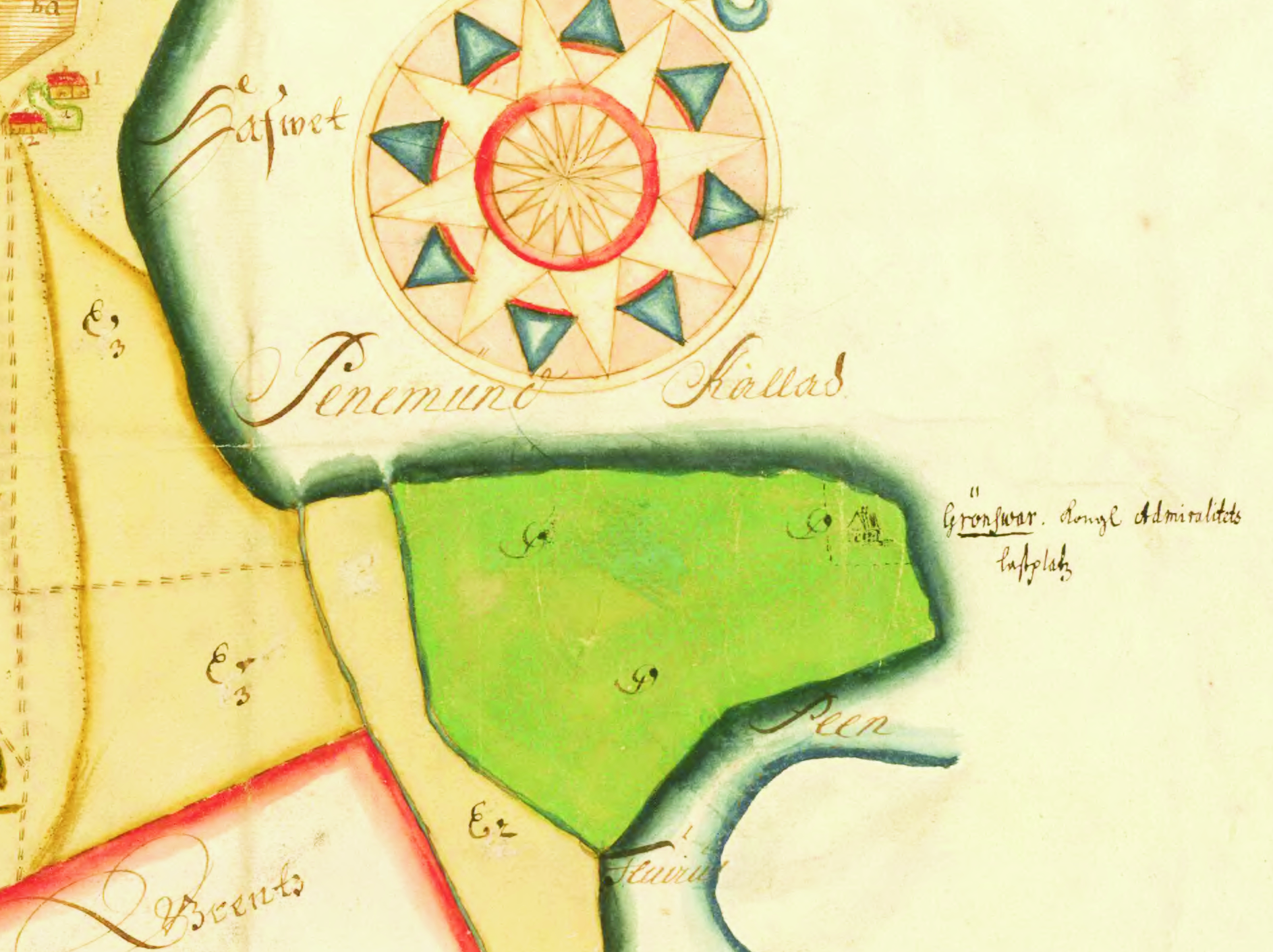 Swedish port "Grünschwade", cutout from the map "Freest" from the Swedish landsurvey of Pomerania 1694